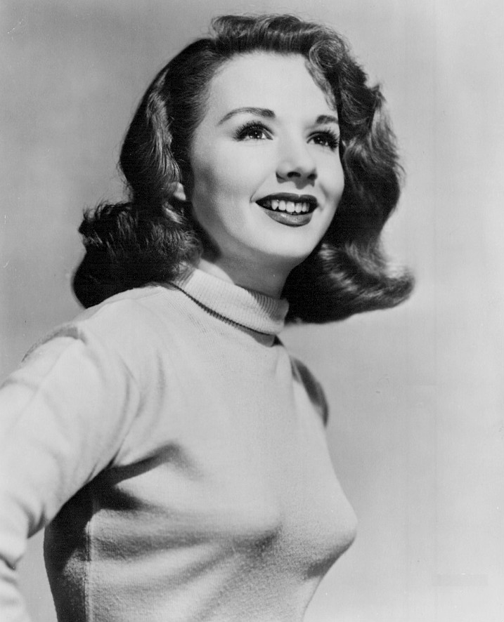 Photo of Piper Laurie from a 1951 Lux Radio Theatre presentation of "Louisa".